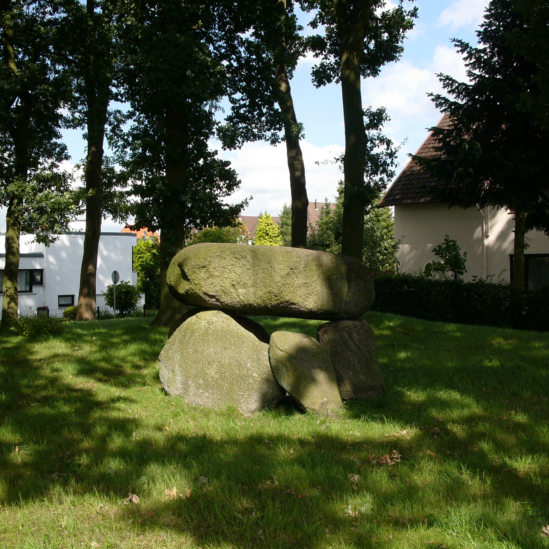 Dolmen in Langen, Niedersachsen, Northern Germany